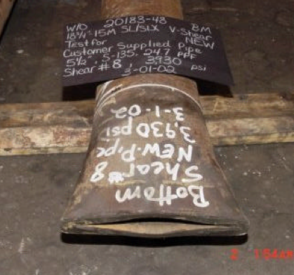 sheared end of oil well drill pipe after operation of shear ram in blowout preventer Photo from page 4 in MINI SHEAR STUDY for U.S. Minerals Management Service, Requisition No. 2-1011-1003, December 2002.